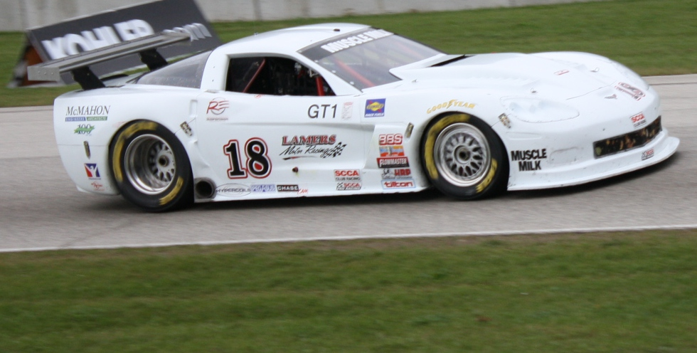 The GT1 car of Kurt Roehrig at the 2009 SCCA National Runoffs at Road America. The car is climbing the hill between turns 5 and 6.